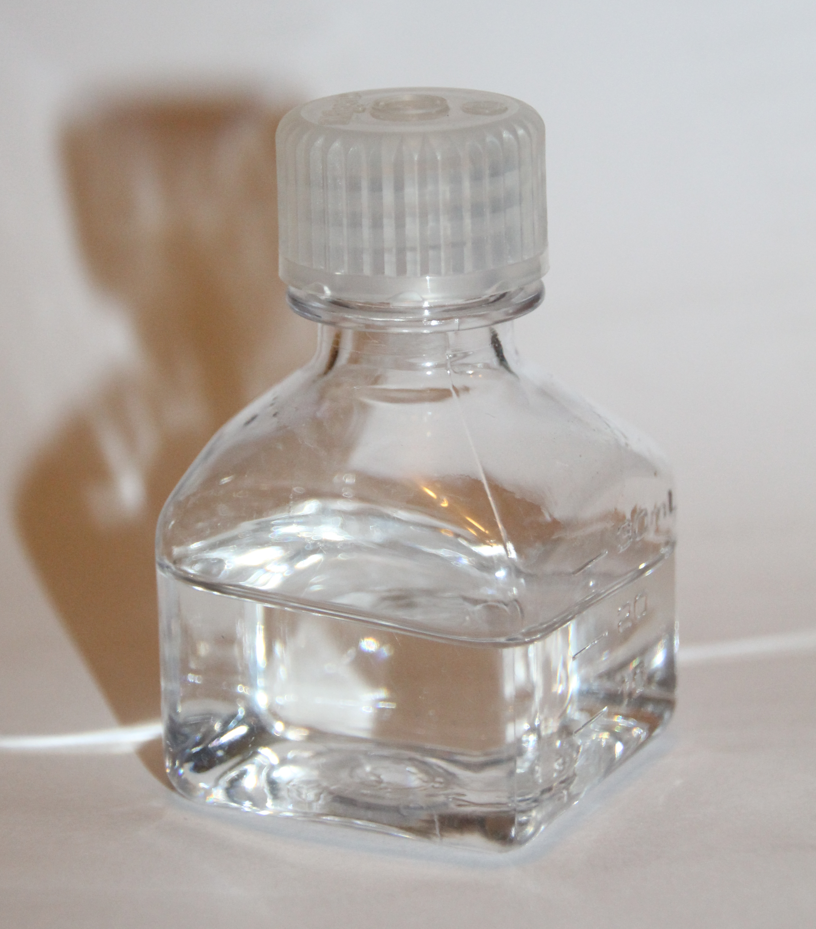 A sample of DL-Lactic acid